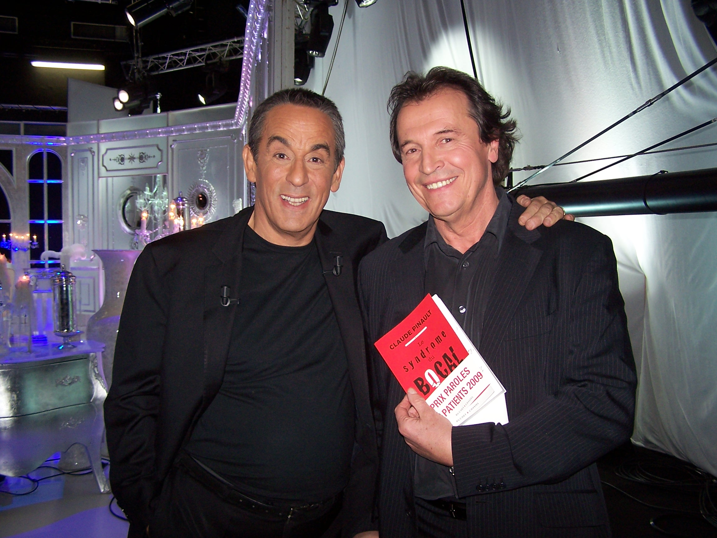 Claude PINAULT Thierry ARDISSON